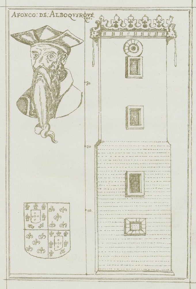 An early seventeenth century Portuguese illustration of the keep of the fortress of Malacca, which included a stone relief of Afonso de Albuquerque, responsible for conquering the city in 1511. Made by the Luso-Malayan Manuel Godinho de Erédia.